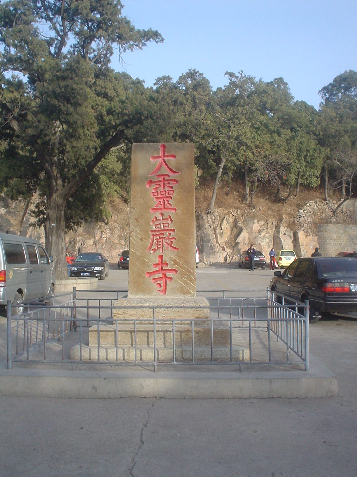 LingYan Temple